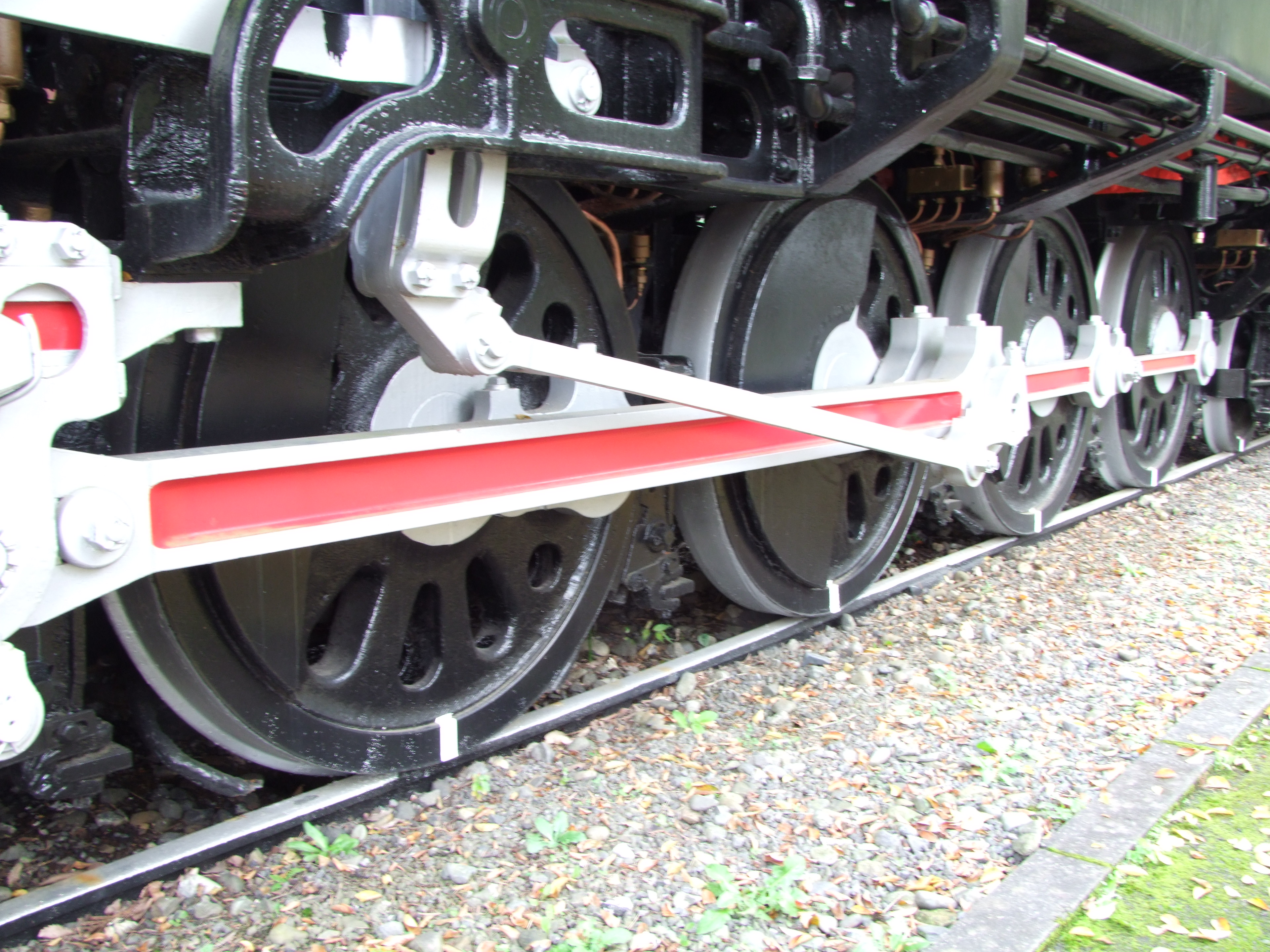 2nd - 5th driving wheel of JNR Class E10 steam locomotive,at Ōme Railway Park.The 3rd & 4th driving wheel is flangeless wheel.